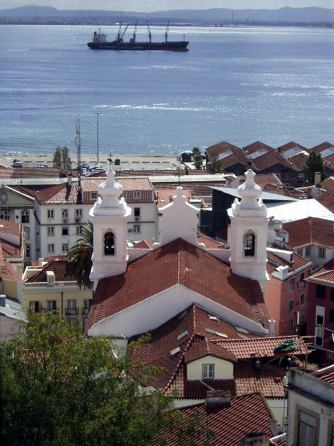 View from Miradouro Sta. Luzia - Tejo river, church St. Miguel and its parish around